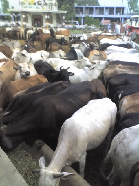 Gaushala, Goshala run in Nabha and its attached self sufficient bio gas plant